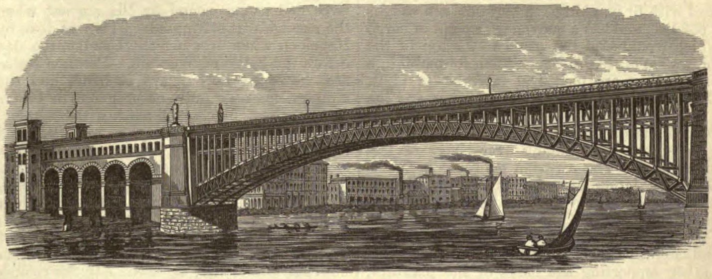 Woodcut/drawing of a steel bridge designed by James B. Eads at St. Louis (construction began 1869).